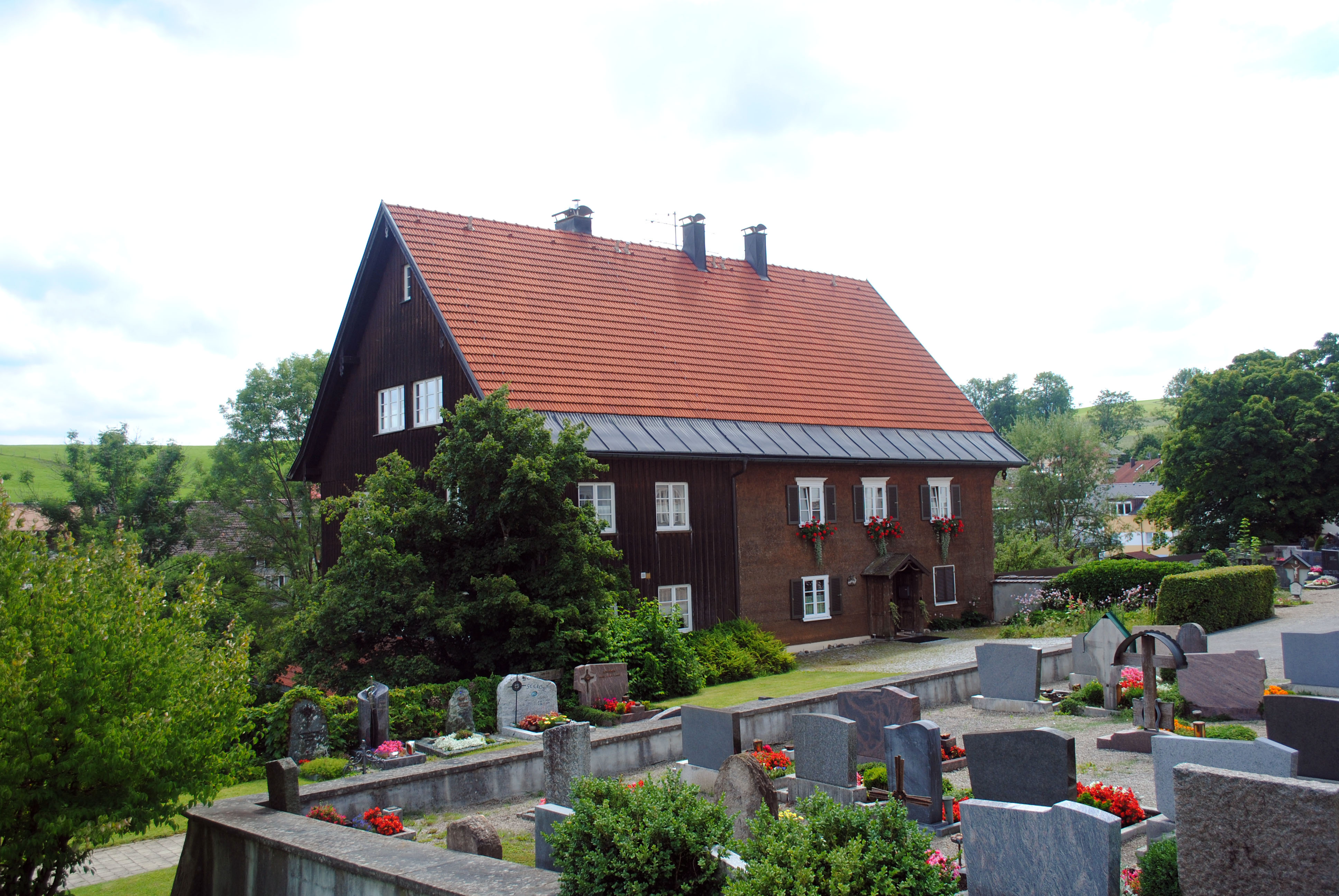 Manse near the church of St. Martin in Stiefenhofen, Bavaria, South Germany